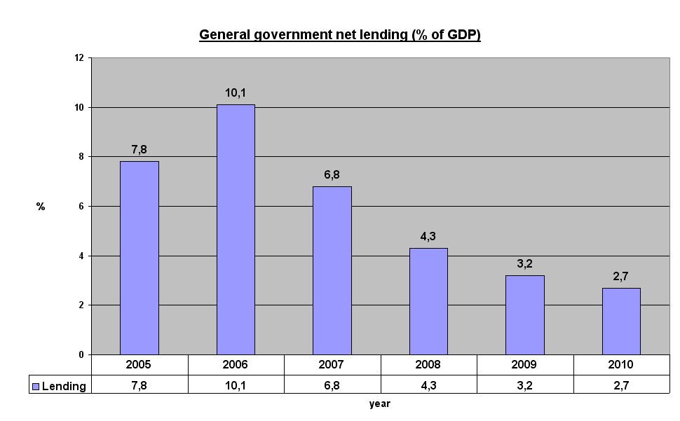 Planned general government net lending of Hungary (% of GDP)